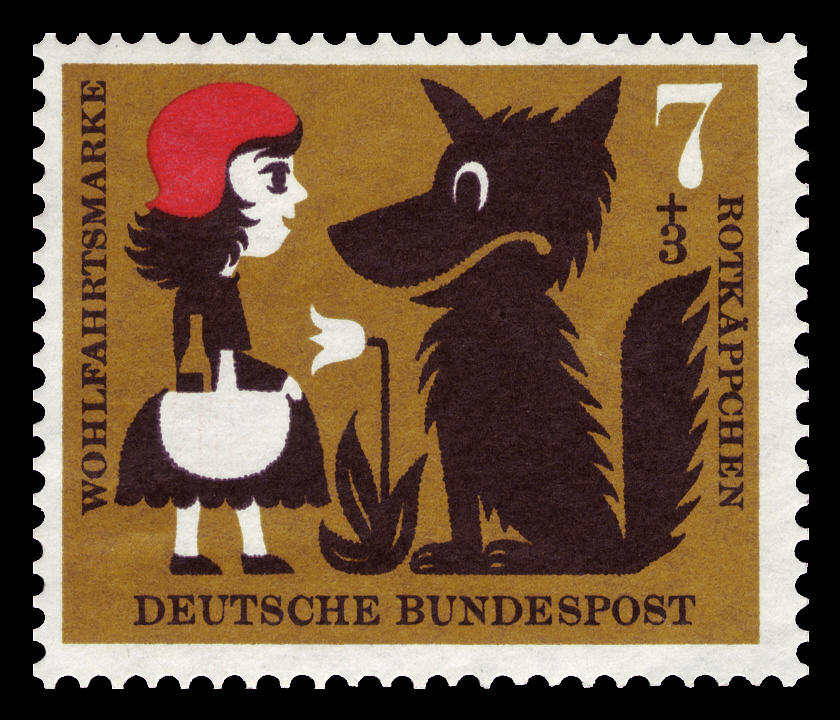 Series for social welfare 1960, fairy tale of the brothers Grimm, Little Red Riding Hood Graphics by Michel + Kieser Ausgabepreis: 7+3 Pfennig First Day of Issue / Erstausgabetag: 1. Oktober 1960 Michel-Katalog-Nr.: 340